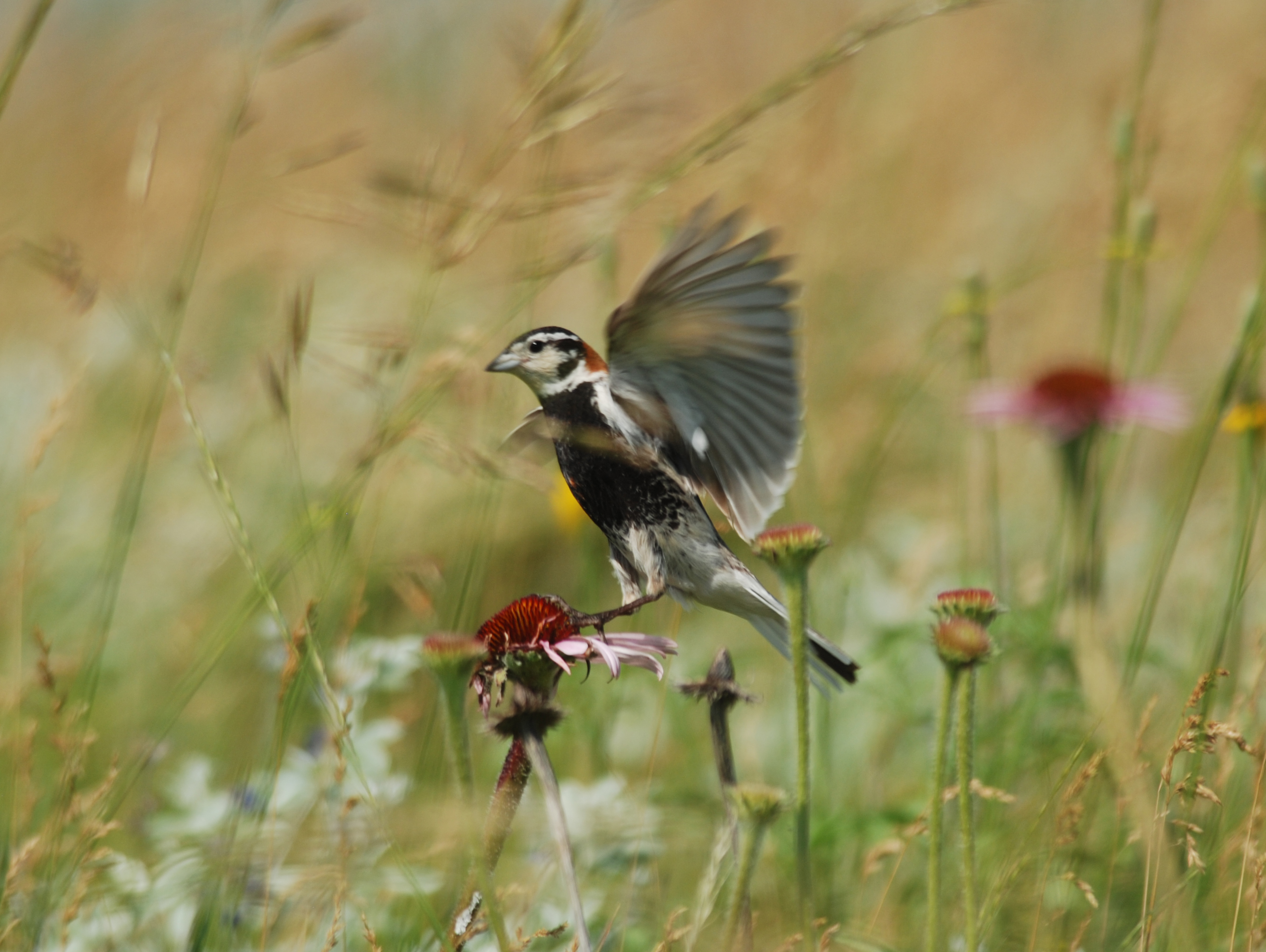 Chestnut-collared Longspur Calcarius ornatus, southern Canada.